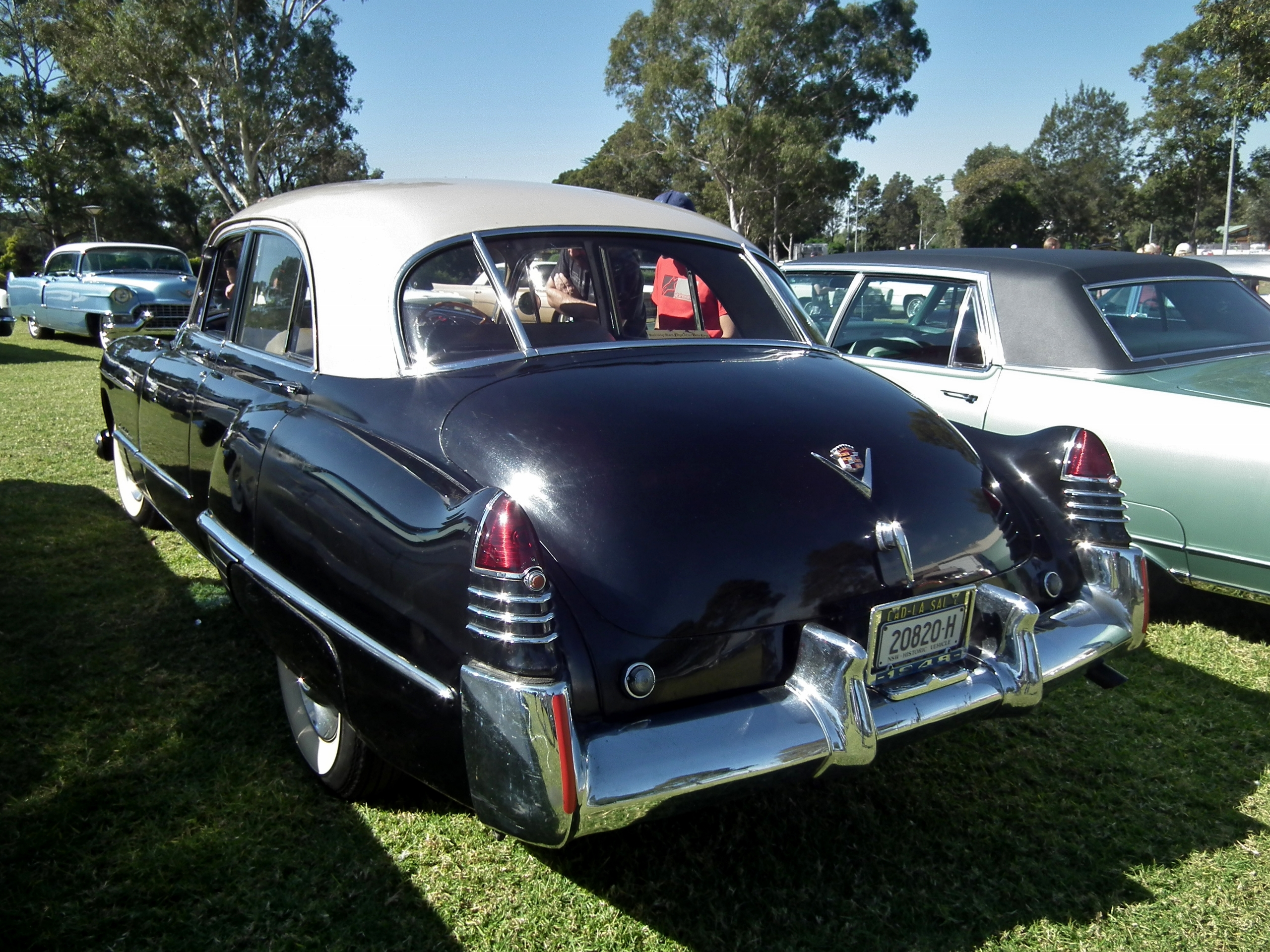 1948 Cadillac Series 62 sedan. Taken at the 2013 General Motors Display Day, held in the grounds of Penrith Panthers Club, Penrith NSW.